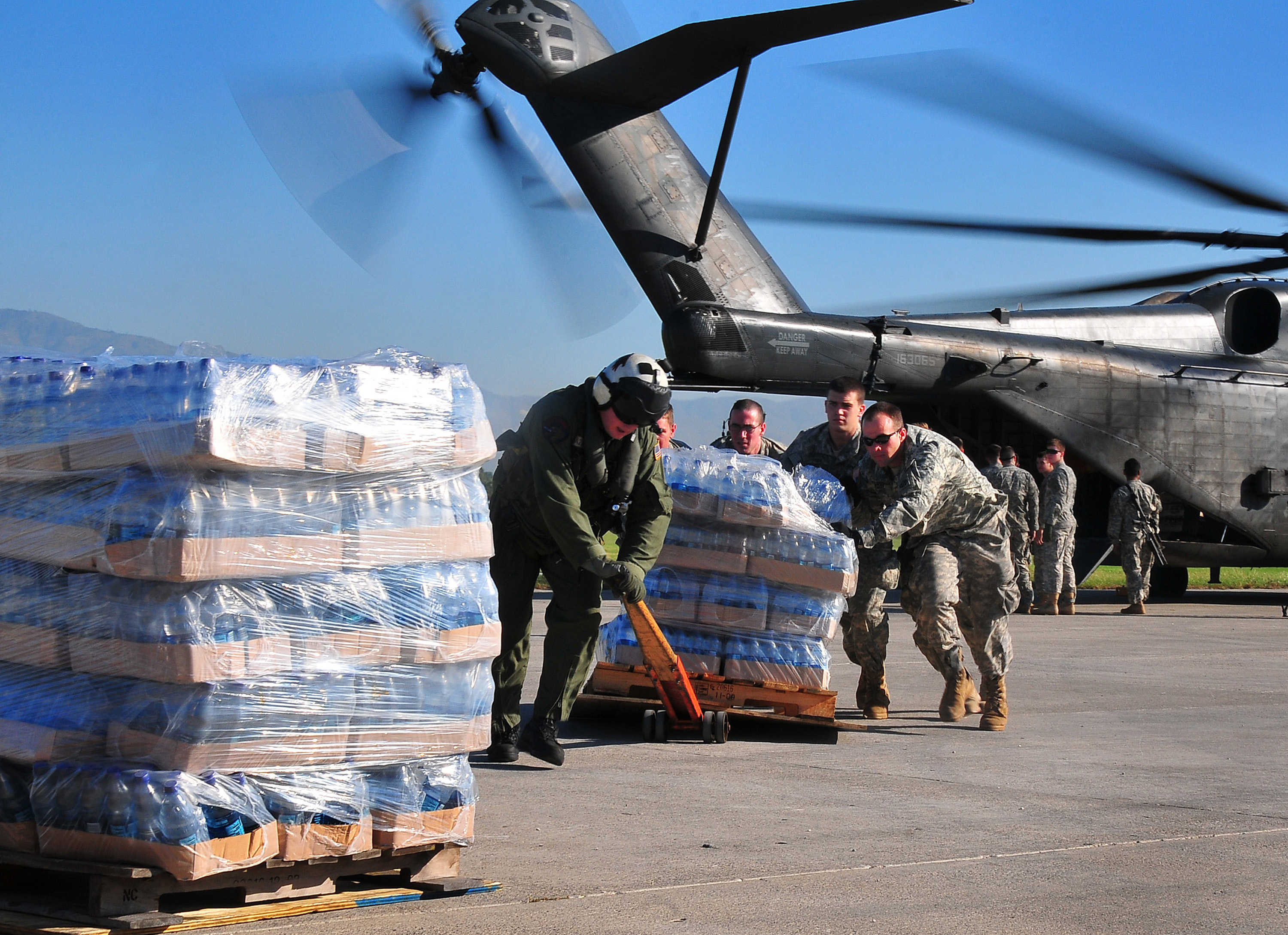 U.S. Army soldiers help the crew of a Navy MH-53E Sea Dragon helicopter from the aircraft carrier USS Carl Vinson (CVN 70) unload food and supplies at the airport in Port-au-Prince, Haiti, on Jan. 15, 2010. The U.S. military is conducting humanitarian and disaster relief operations after a 7.0-magnitude earthquake caused severe damage in and around Port-au-Prince on Jan. 12, 2010.